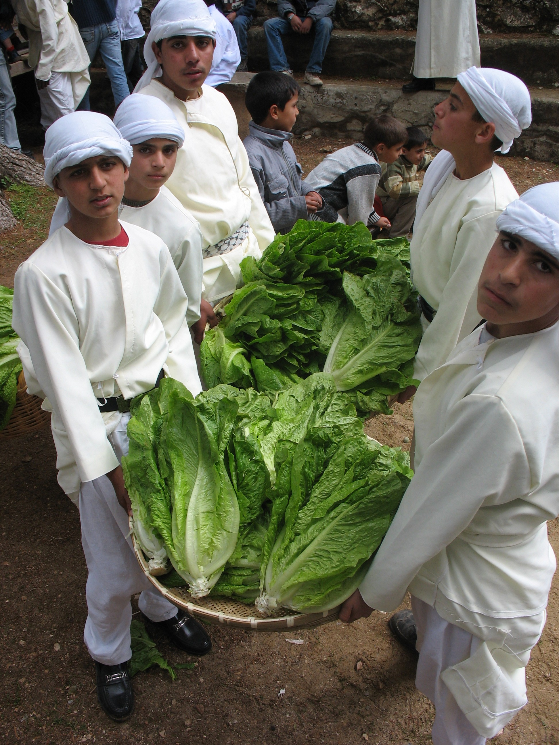 Members of the Artas Folklore Troupe pose before distributing lettuce to guests at the 2006 Artas Lettuce Festival.